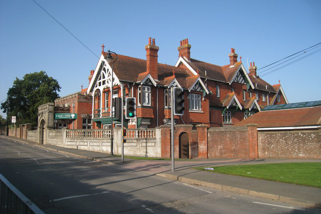 St Bede's School, Upper Dicker. Formerly "The Dicker", home of Horatio Bottomley MP (1860-1933)